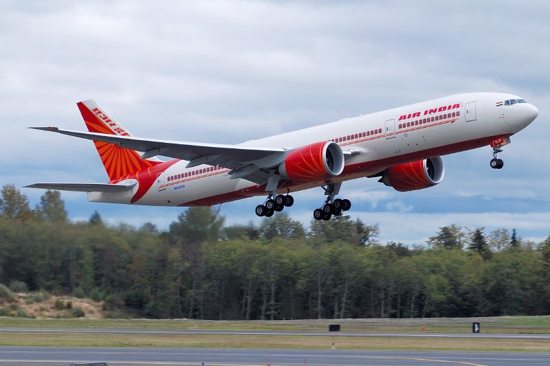 Air India 772LRBOEING 014/N5016R test flight 777-200LR Boeing Field - Seattle, WA October 16, 2007 Uploaded to Wiki by Nikhil Kulkarni